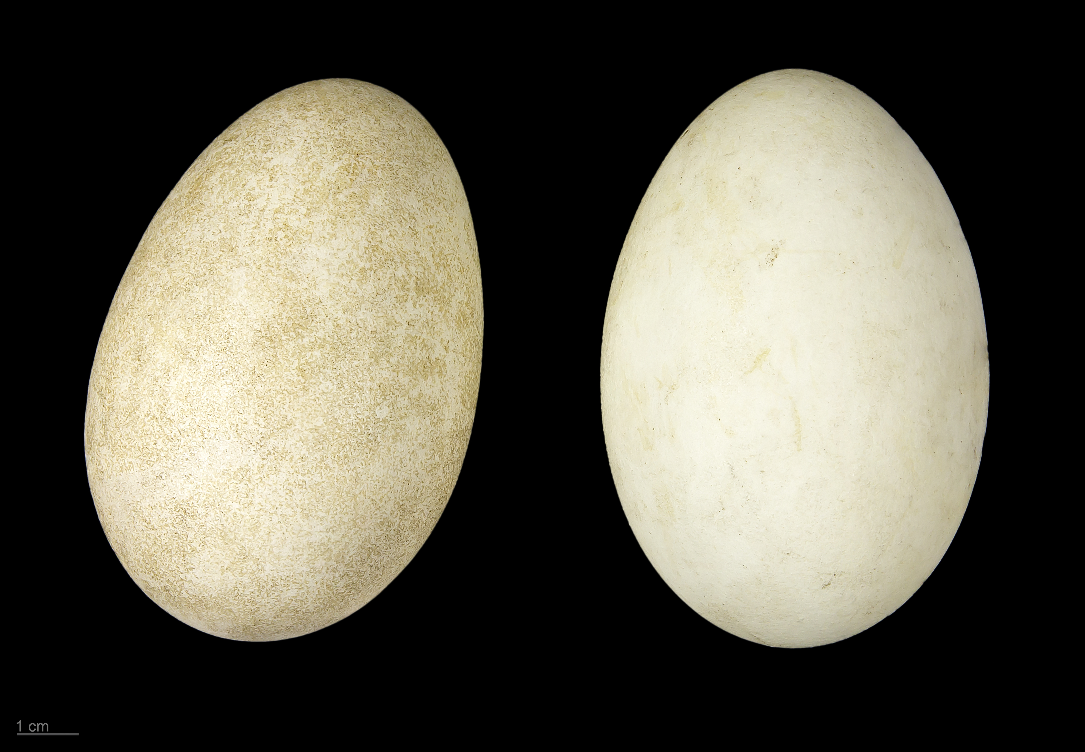 Egg of greylag goose Collection of Jacques Perrin de Brichambaut.